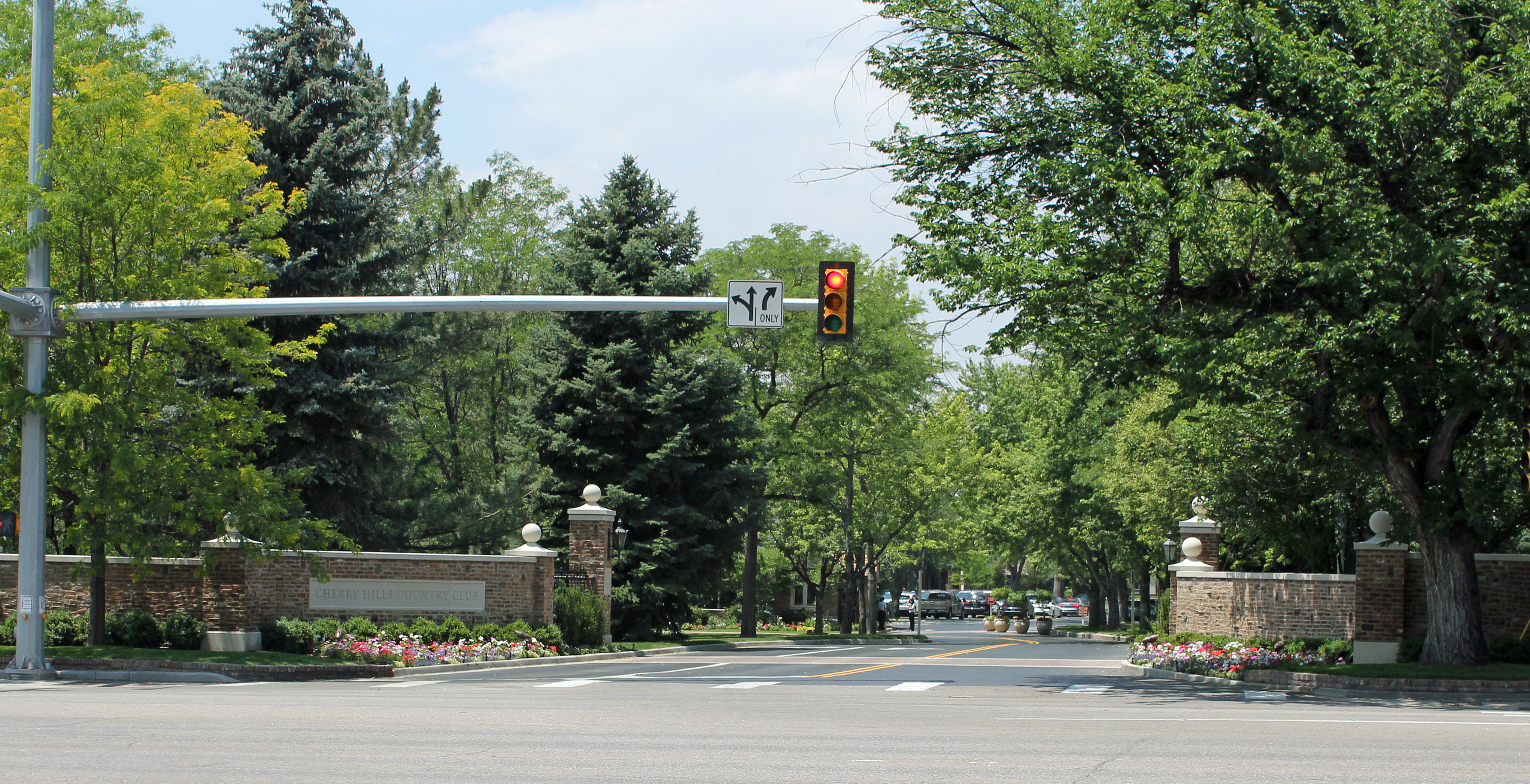 The Cherry Hills Country Club, located at 4125 South University Boulevard in Cherry Hills Village, Colorado.